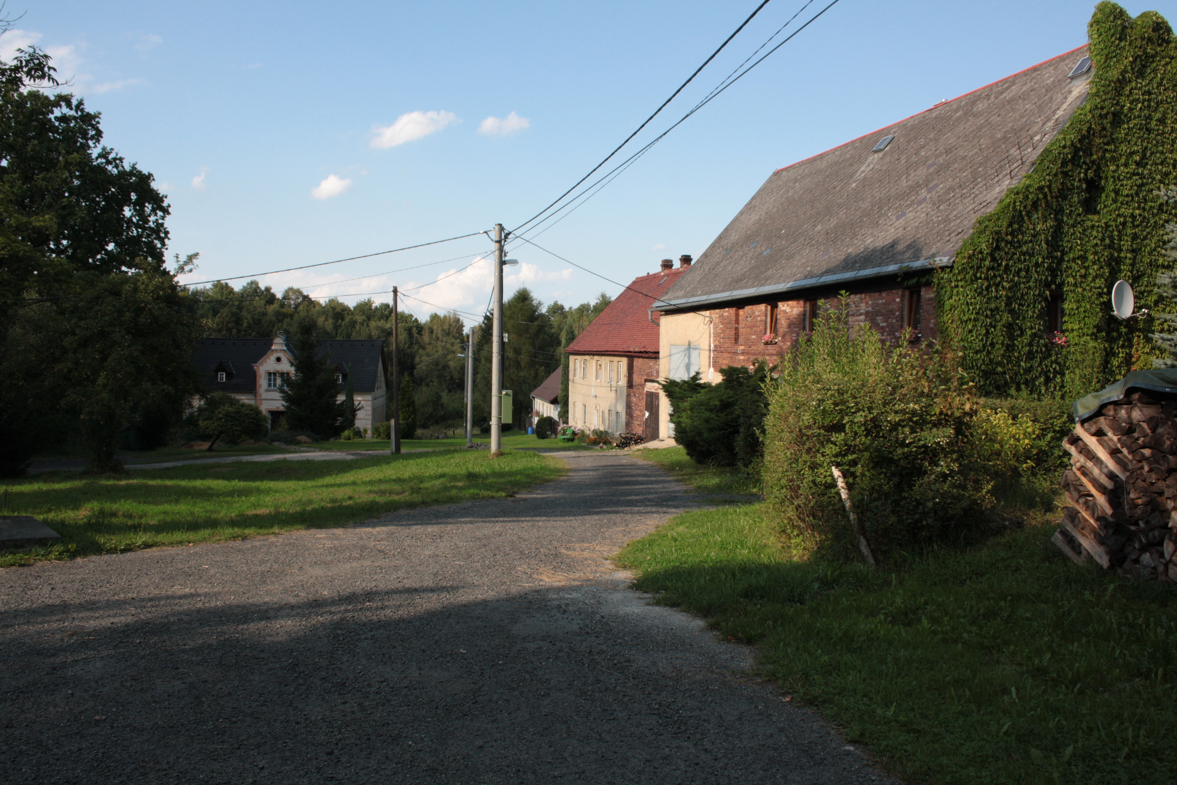 This photograph was taken with a DSLR from WMCZ's Camera grant. Náves v Háji u Habartic.